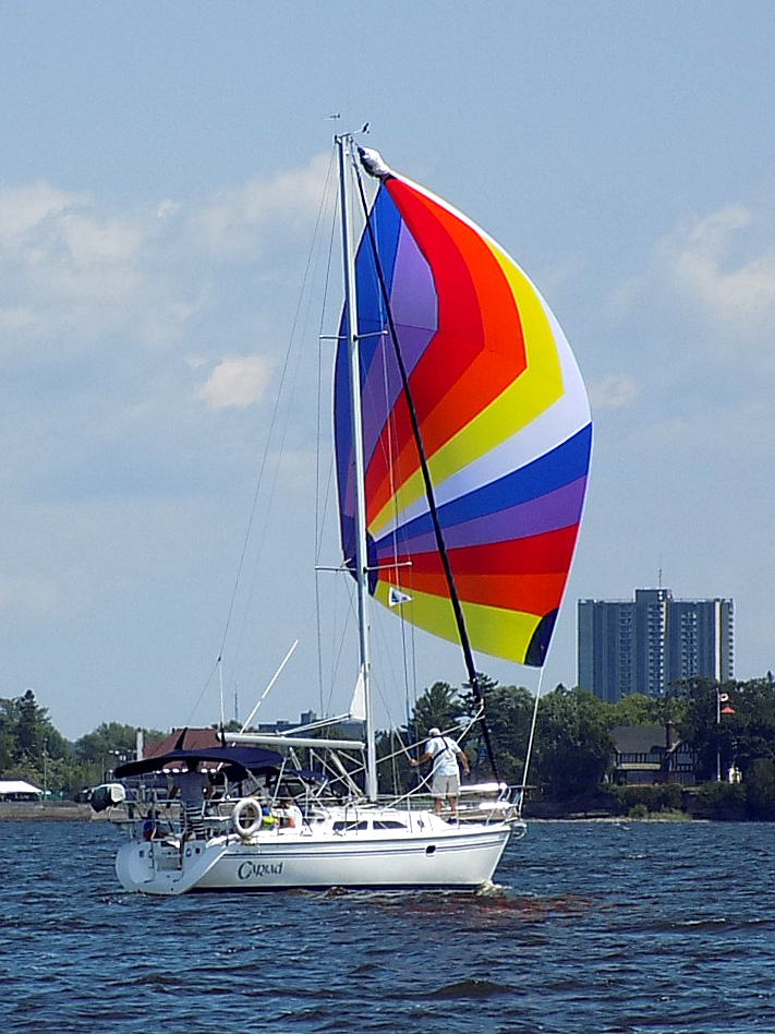 A Catalina 28 Mark II sailboat named Cariad, under spinnaker.